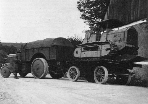 Artillery tractor Škoda Z